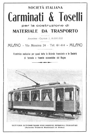 Carminati & Toselli vintage advertising